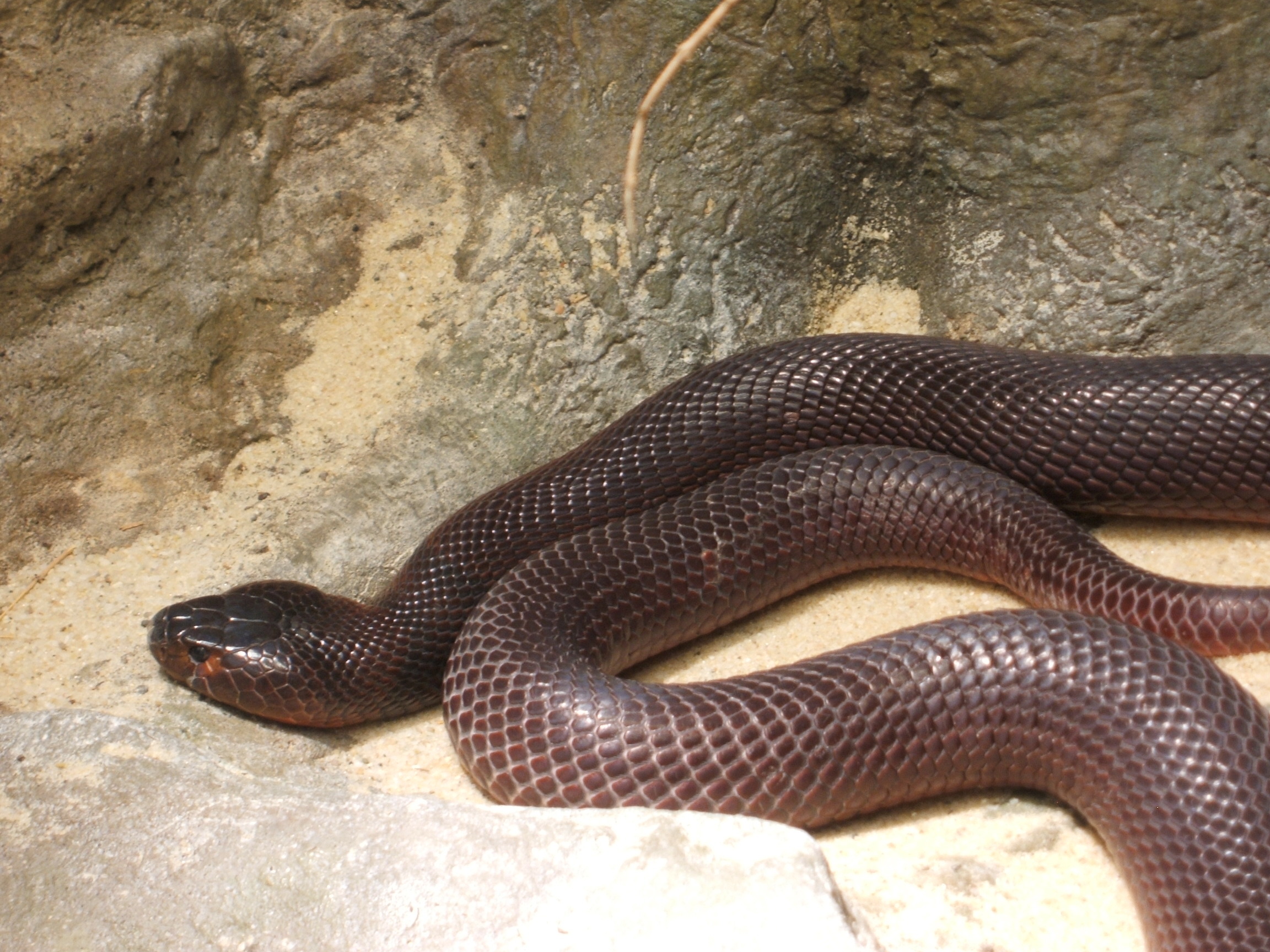 Red spitting cobra (Naja pallida), Boston Museum of Science